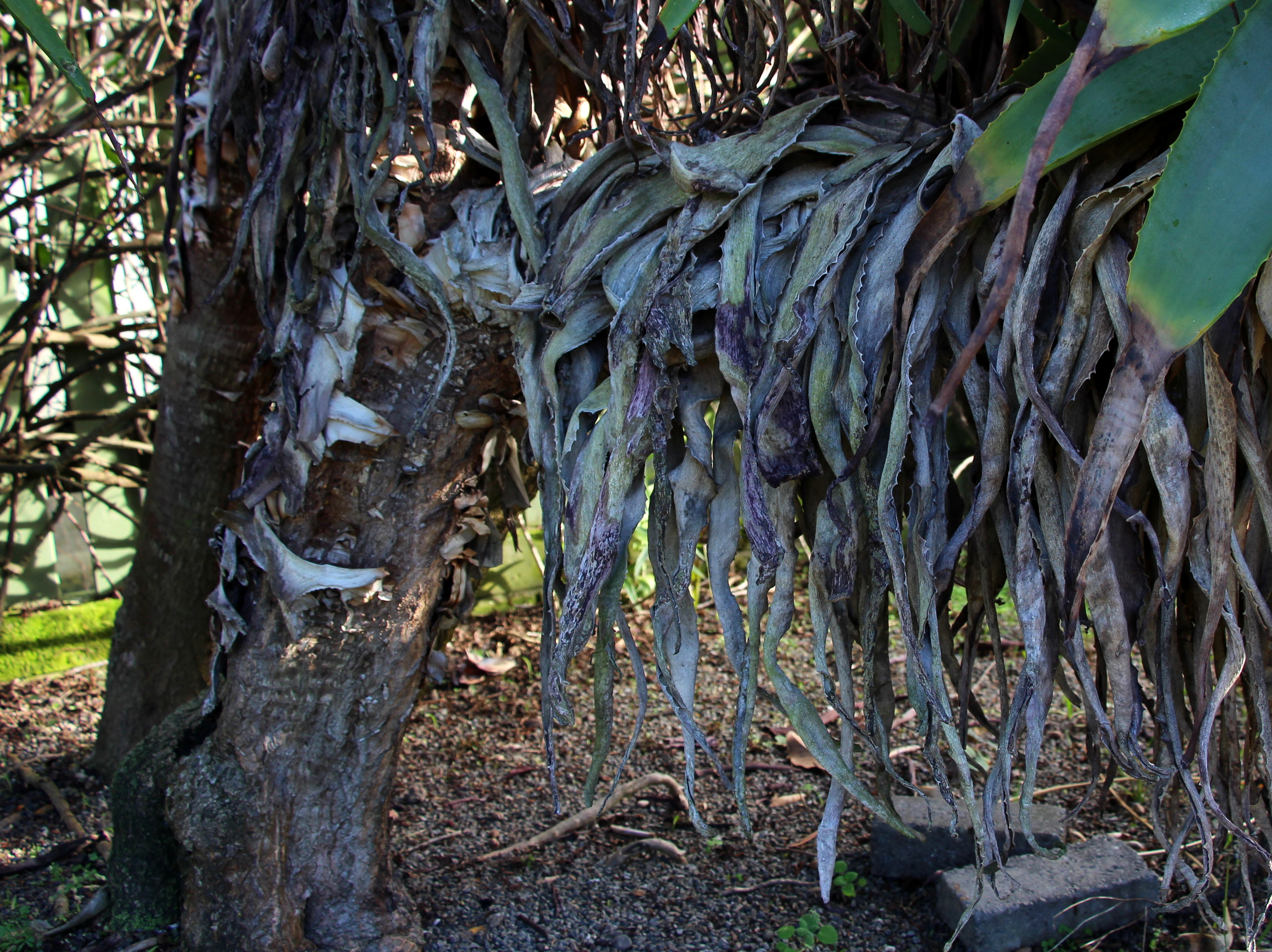 Aloe speciosa. Peter Black Conservatory, Victoria Esplanade Park, Palmerston North, New Zealand